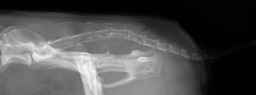 xray of a rabbit tail